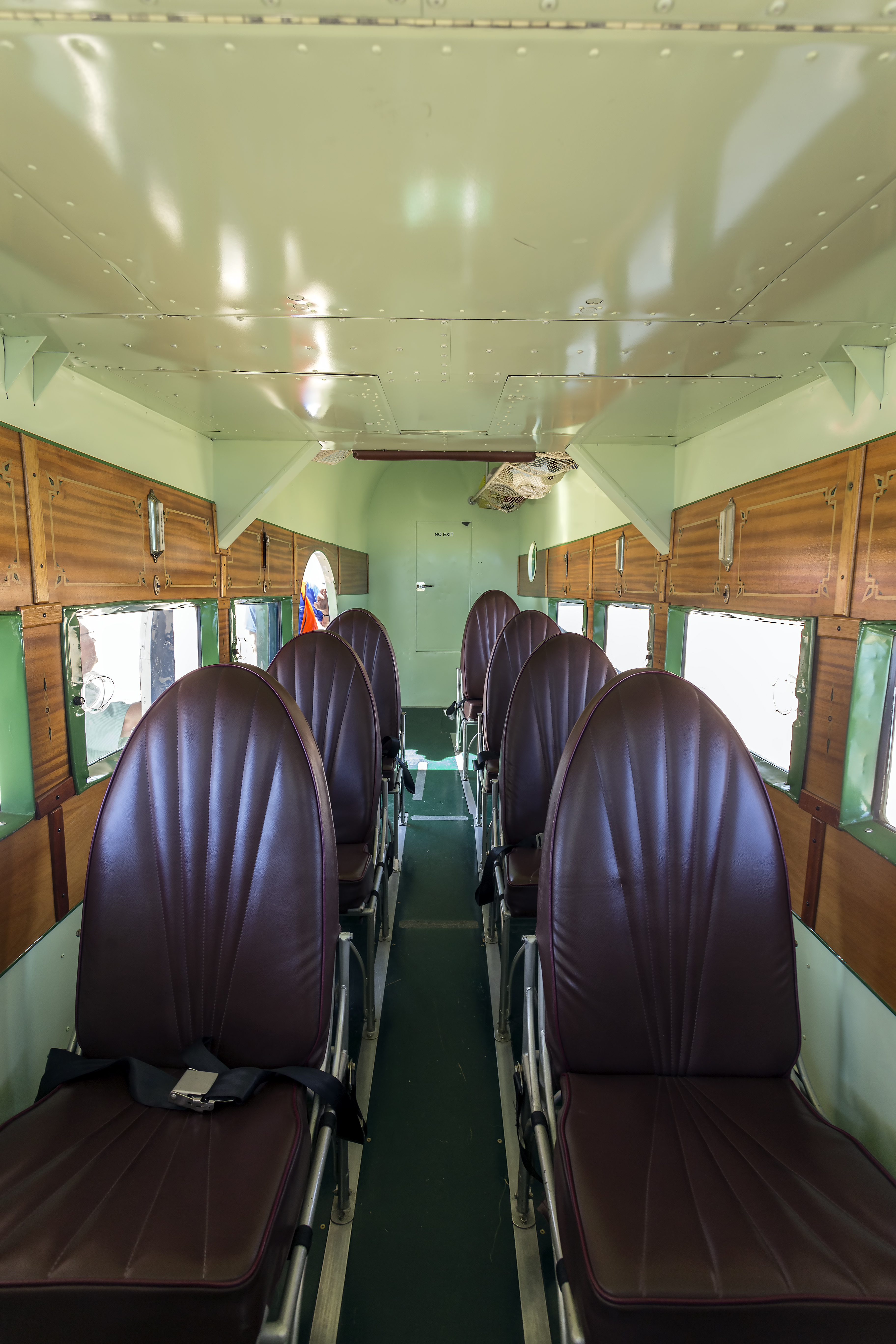 Interior of Ford 4-AT Tri-Motor NC8407 at Frederick Airport, Maryland, USA, looking aft